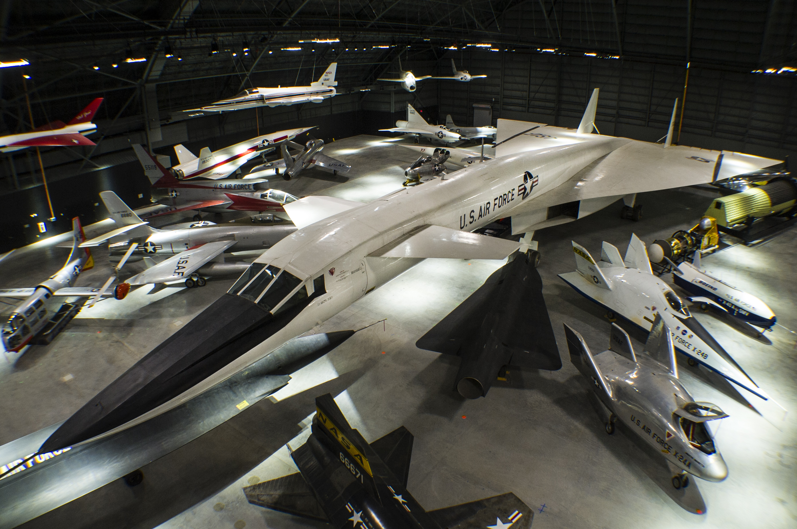 An overhead view of the fourth building aircraft at the National Museum of the United States Air Force to include the North American XB-70 Valkyrie. The fourth building includes more than 70 aircraft in four new galleries -- Presidential, Research & Development, Space and Global Reach. (U.S. Air Force photo by Ken LaRock)Public Domain